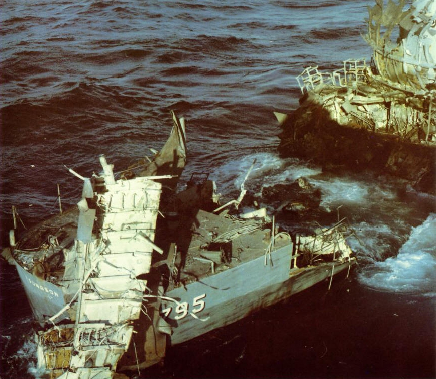 The retired U.S. Navy destroyer escort USS Gunason (DE-795) after being hit by the first air-launched AGM-84 Harpoon missile on 28 July 1973. The AGM-84 was launched from a Lockheed P-3 Orion at the Pacific Missile Test Center Point Mugu, California (USA).